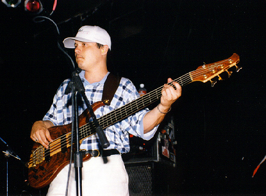 . Author: Heather Leah Kennedy